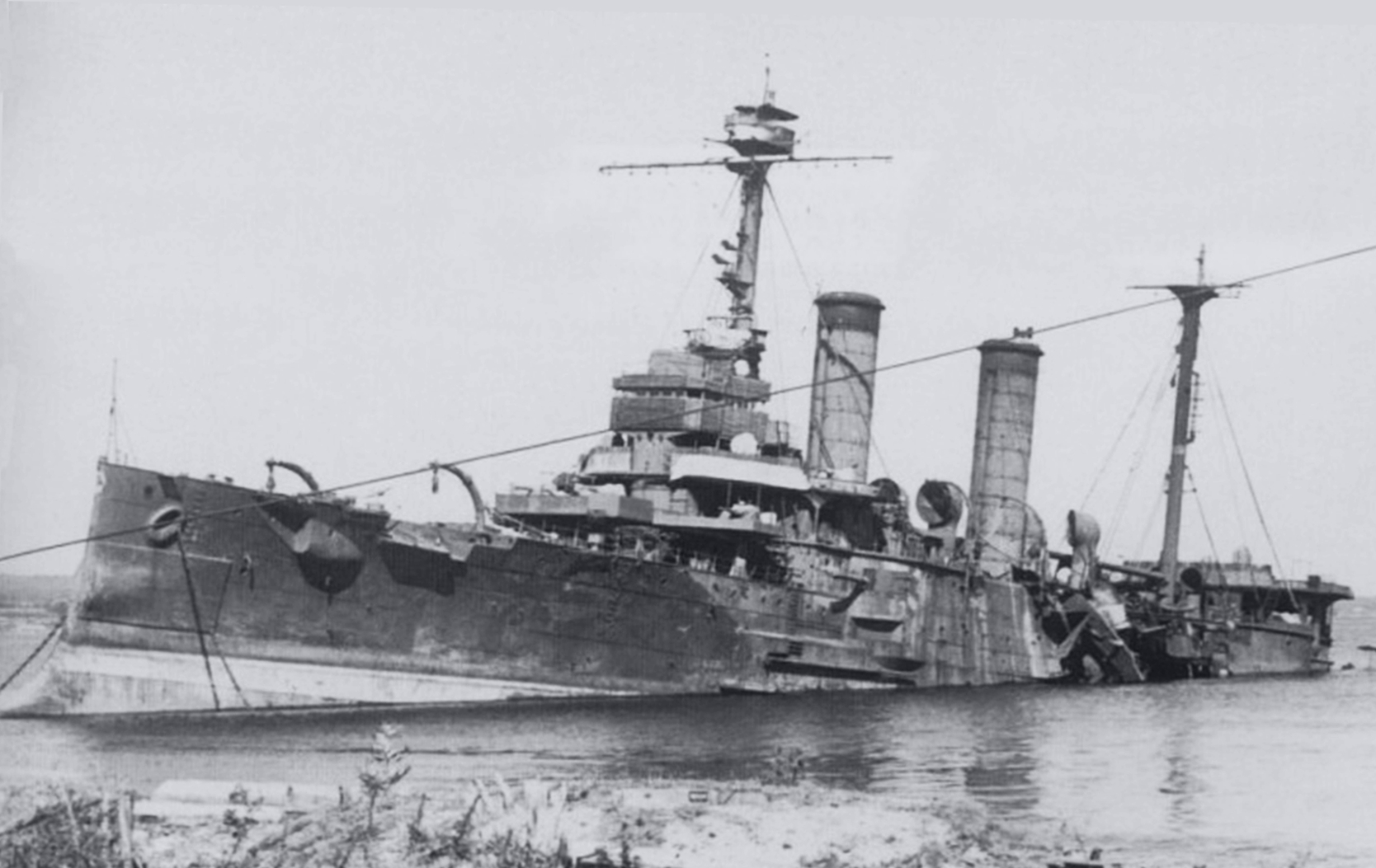 Wreck of Japanese cruiser Tokiwa in 1945